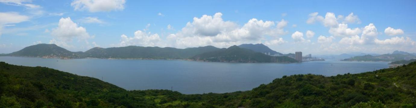 Tathong Channel is the Channel between Fat Tong Chauand Hong Kong Island. The camera is facing west, thus the opposite coast in this photo is Hong Kong Island. The picture was taken from Tung Lung Chau.